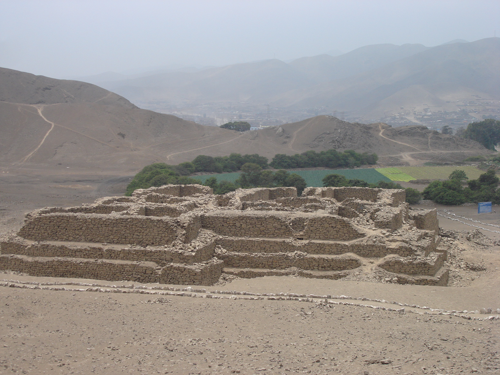 Huaca El Paraiso, located in Ventanilla, is one of the oldest pre-inca's historical places in Peru's litoral.